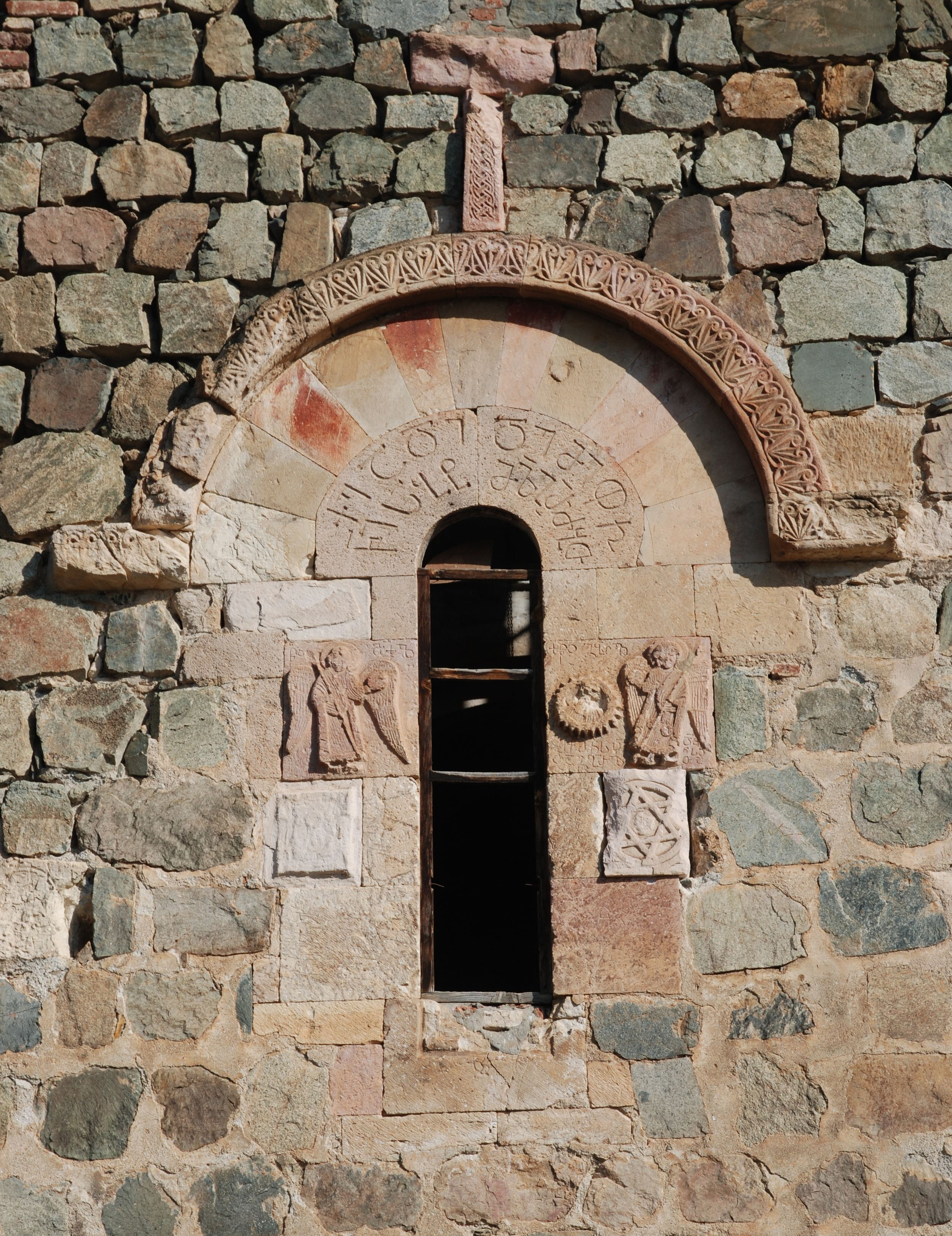 Doliskana church in Hamamlıköy village, central window south